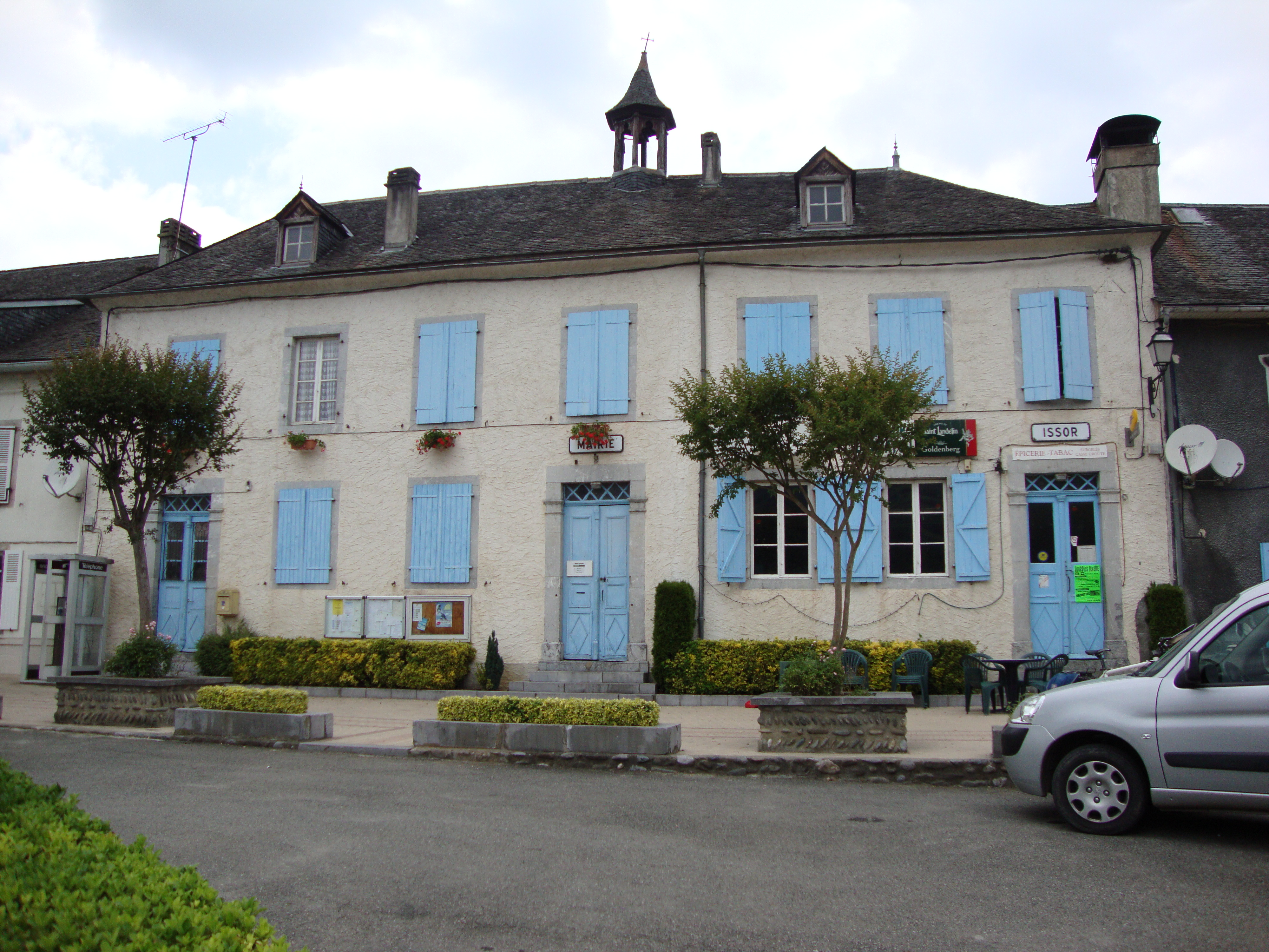 Issor (Pyr-Atl, Fr) town hall (left part of the building